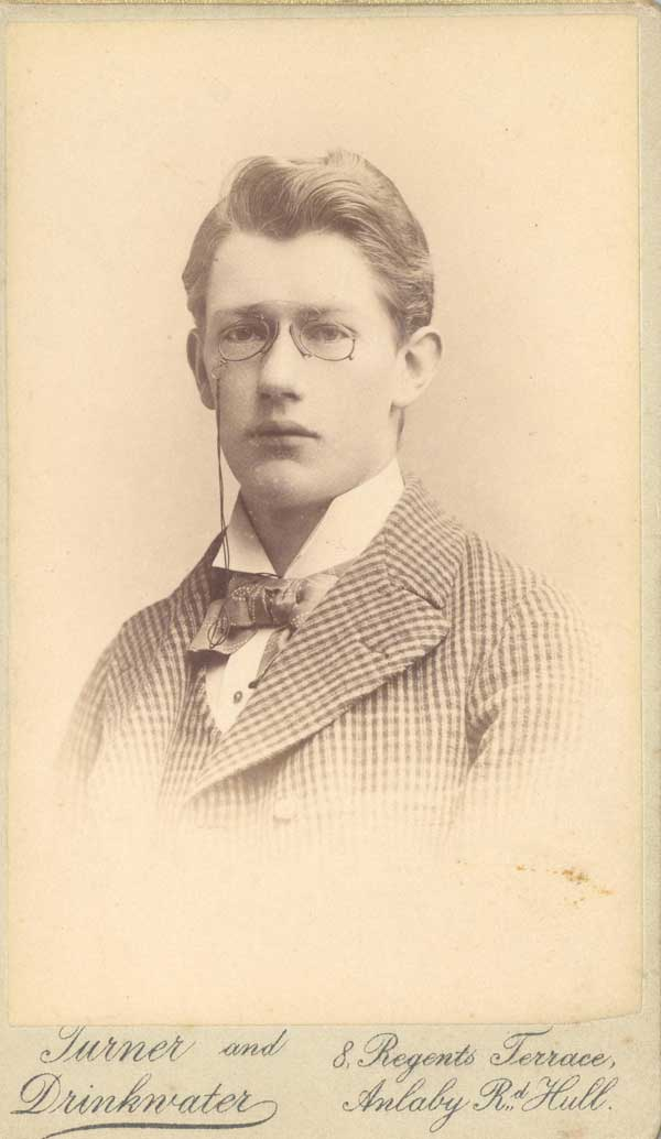 Portrait of John Kirk